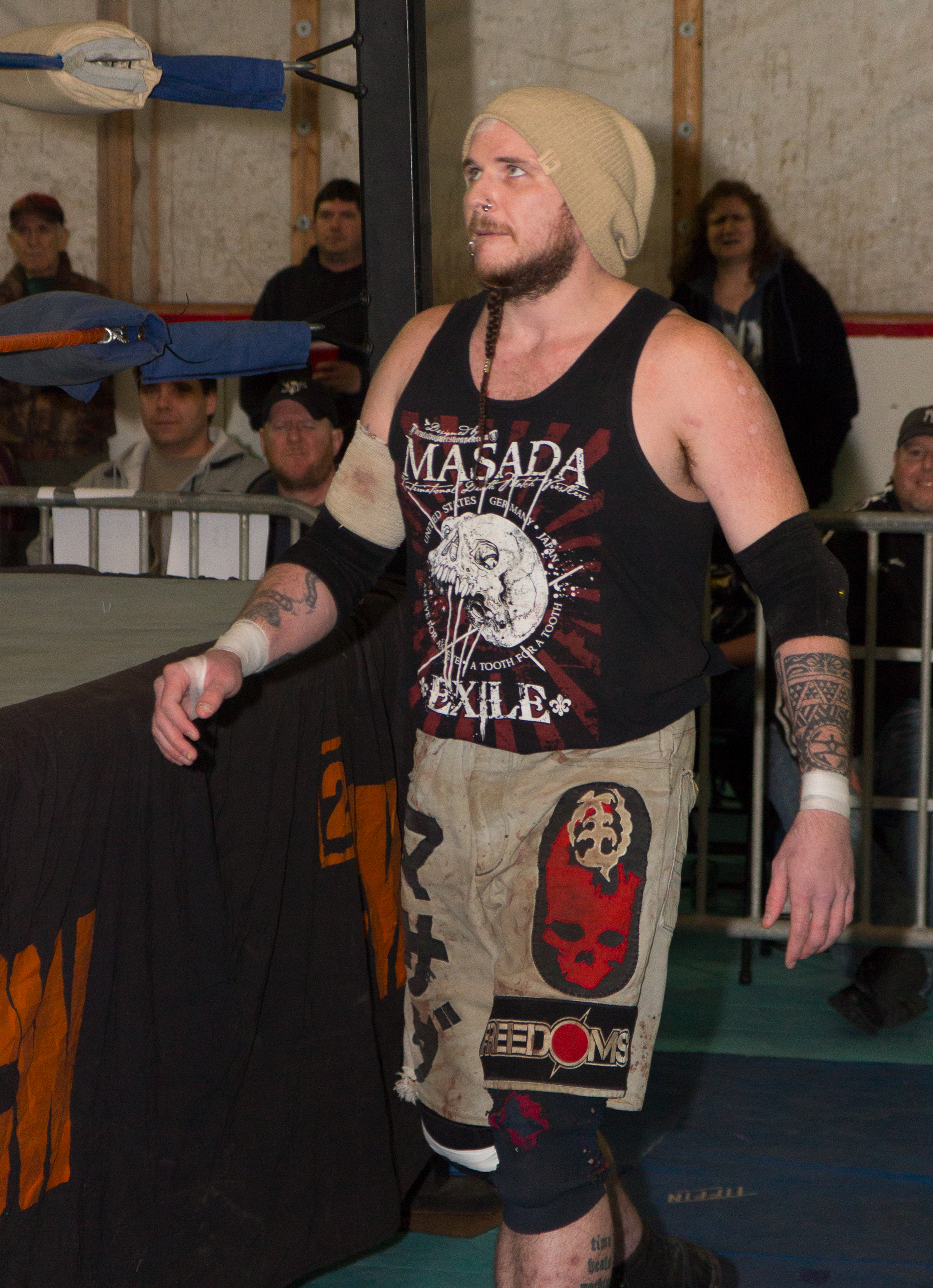 Independent wrestler Masada making his entrance at a 2CW show in Niagara Falls